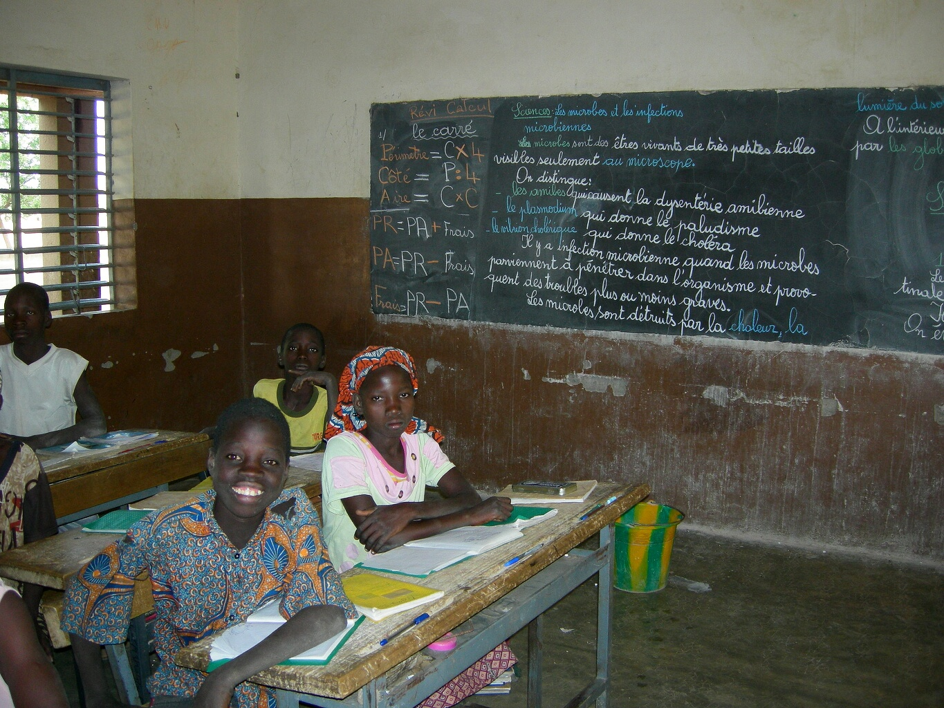 Burkina Faso: primary school in Dourtenga